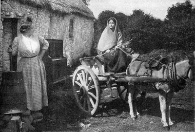 The Irish in America (1915), production Sid Films, distribution Lubin, réalisation Sidney Olcott, avec Valentine Grant (à droite).